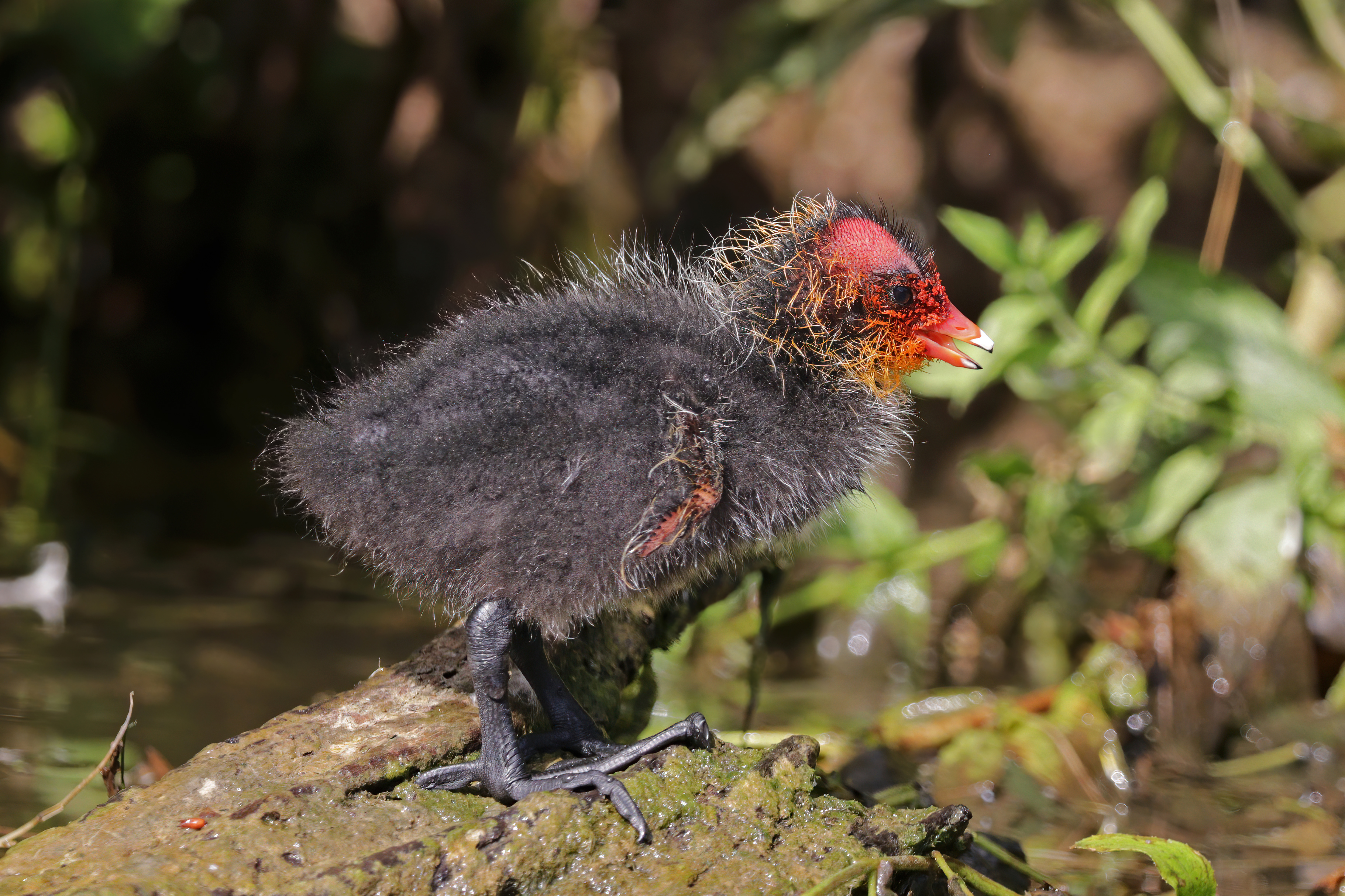 Eurasian coot (Fulica atra) juvenile, Marais Audomarois, St Omer, France